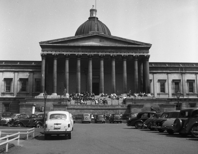 Portico and steps, University College, London